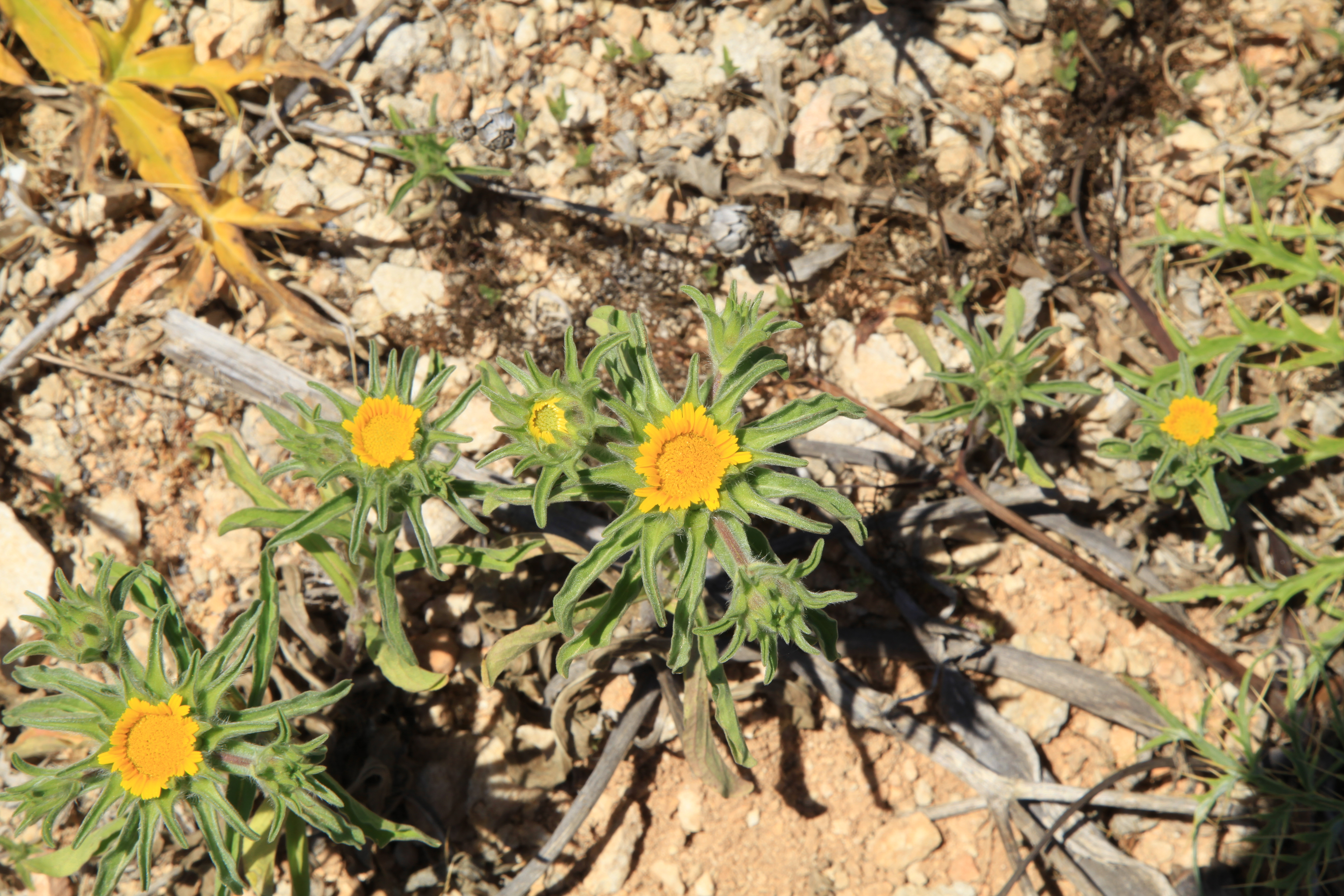 Asteriscus aquaticus growing on Comino in Għajnsielem, Malta